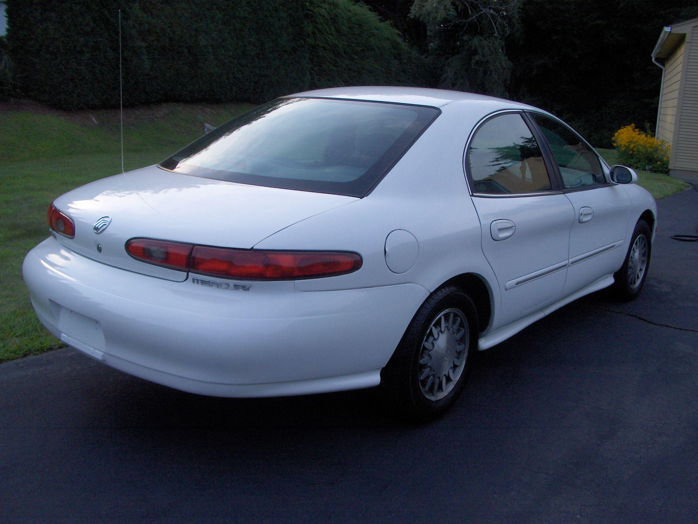 mercury sable 3rd gen rear